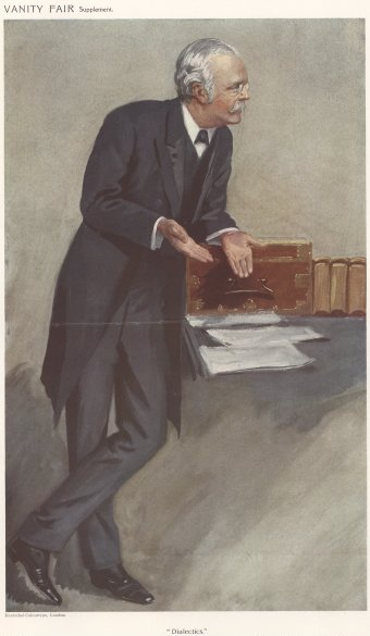 Caricature of Rt Hon A Balfour. Caption read "Dialectics".